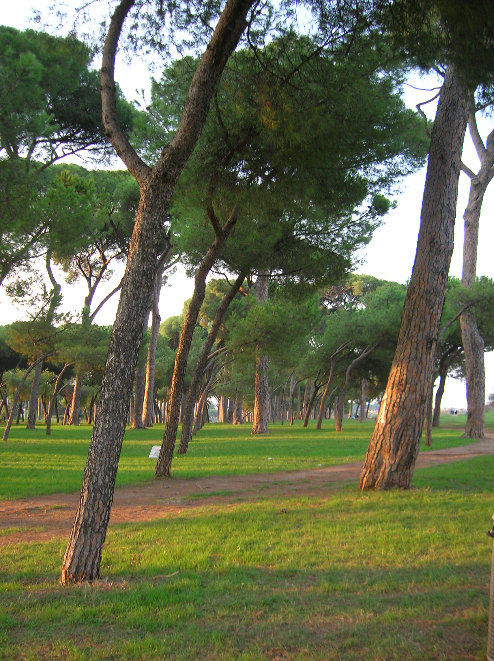 Pineta Sacchetti, park of Rome, Lazio, Italy